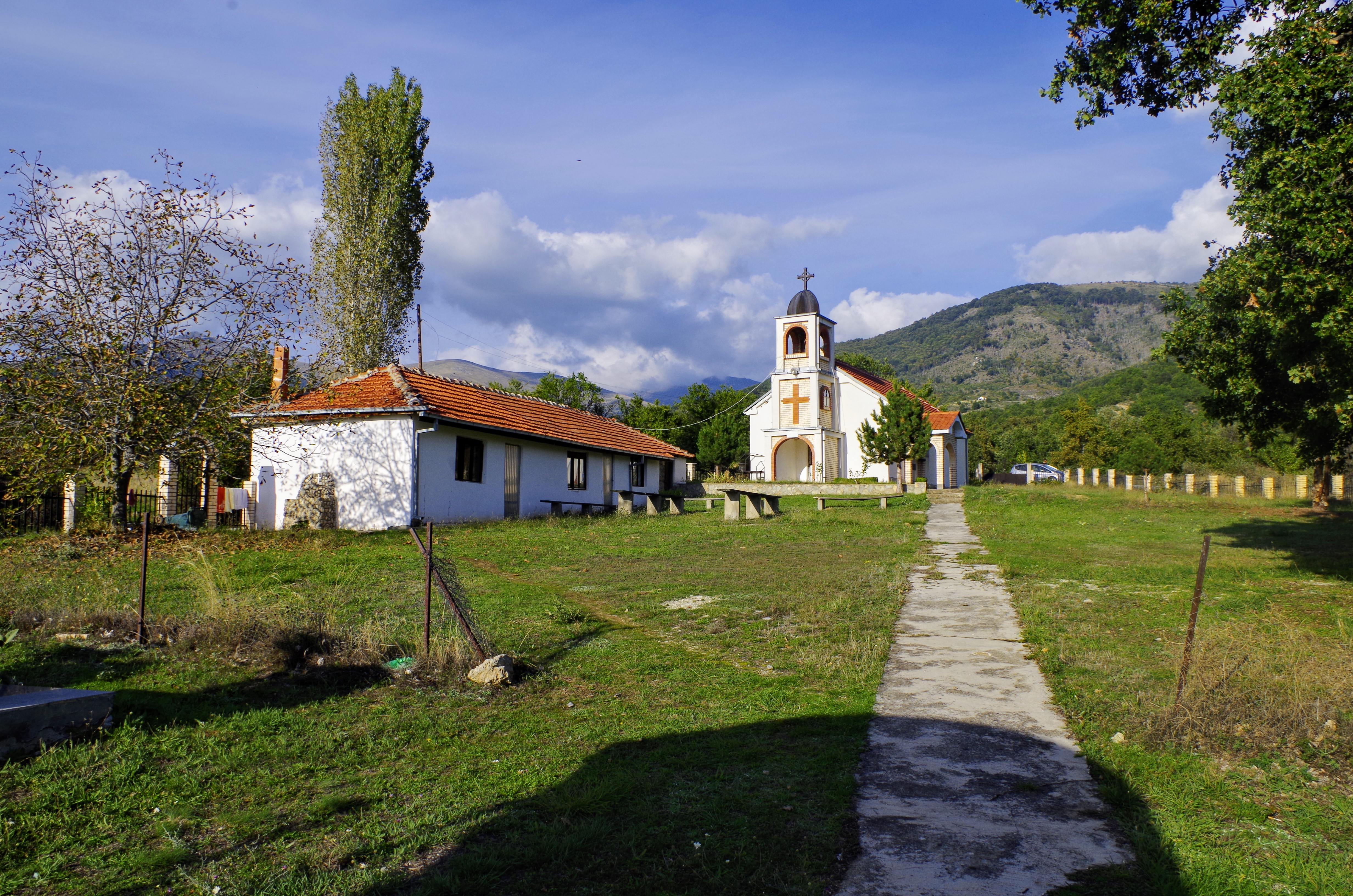 View of the St. John the Baptist Church in the village Štrbovo